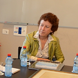 This is Rocket Science!